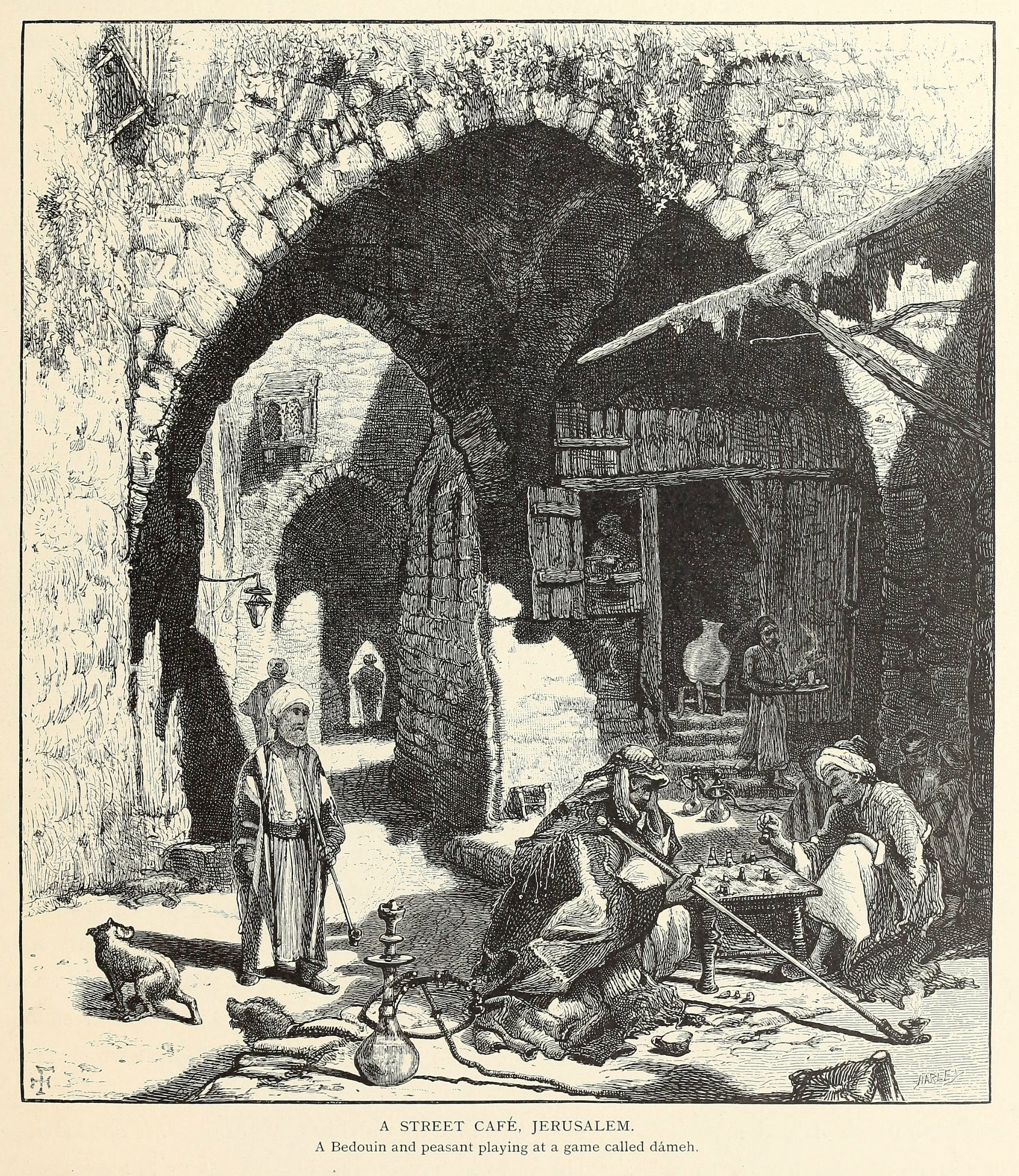 Caption: a street café, jerusalem. A Bedouin and peasant playing at a came called dámeh.